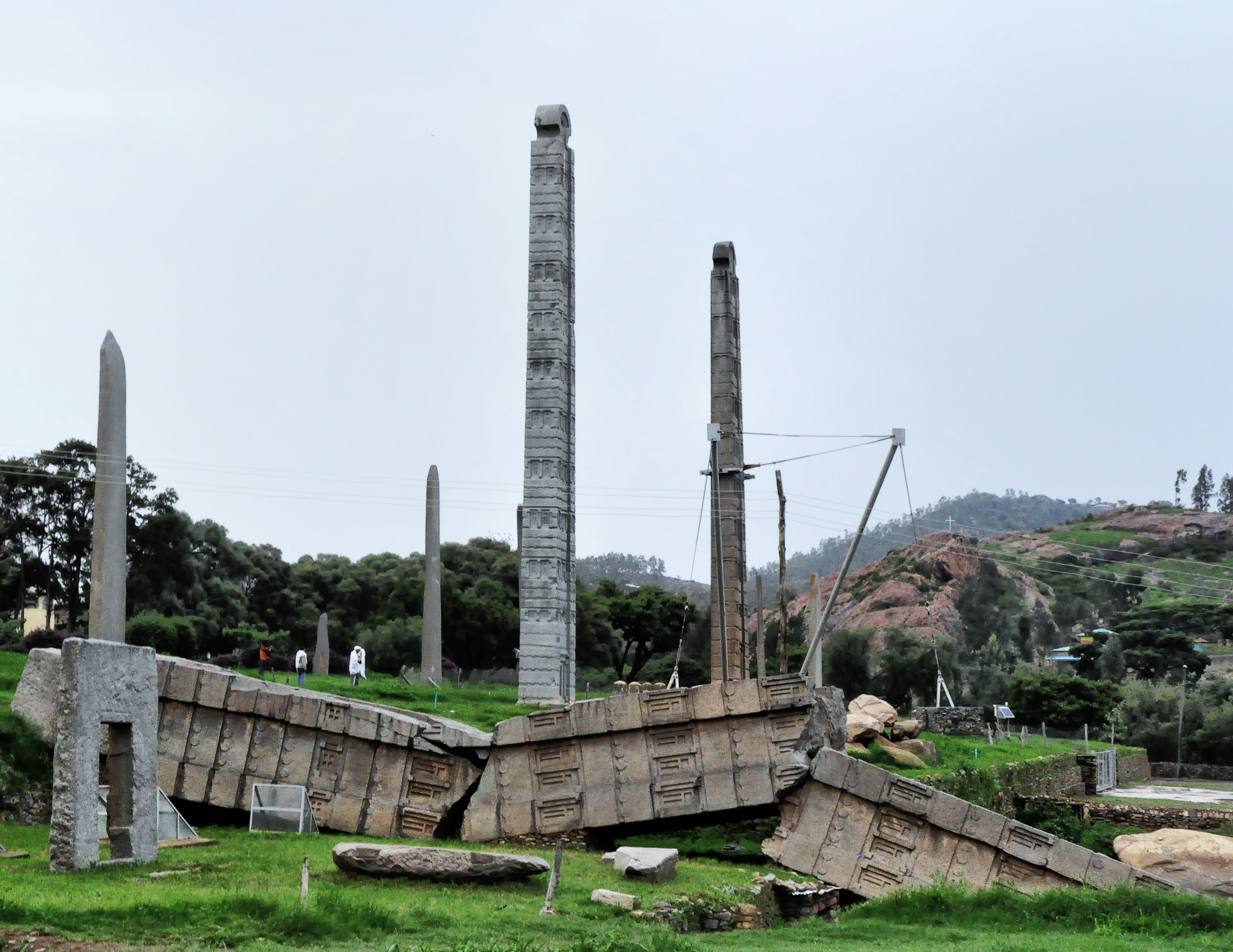 Fallen Stelae is the biggest piece of stone cut by humanity. 35m tall, 3x2m base, weight 520 tons